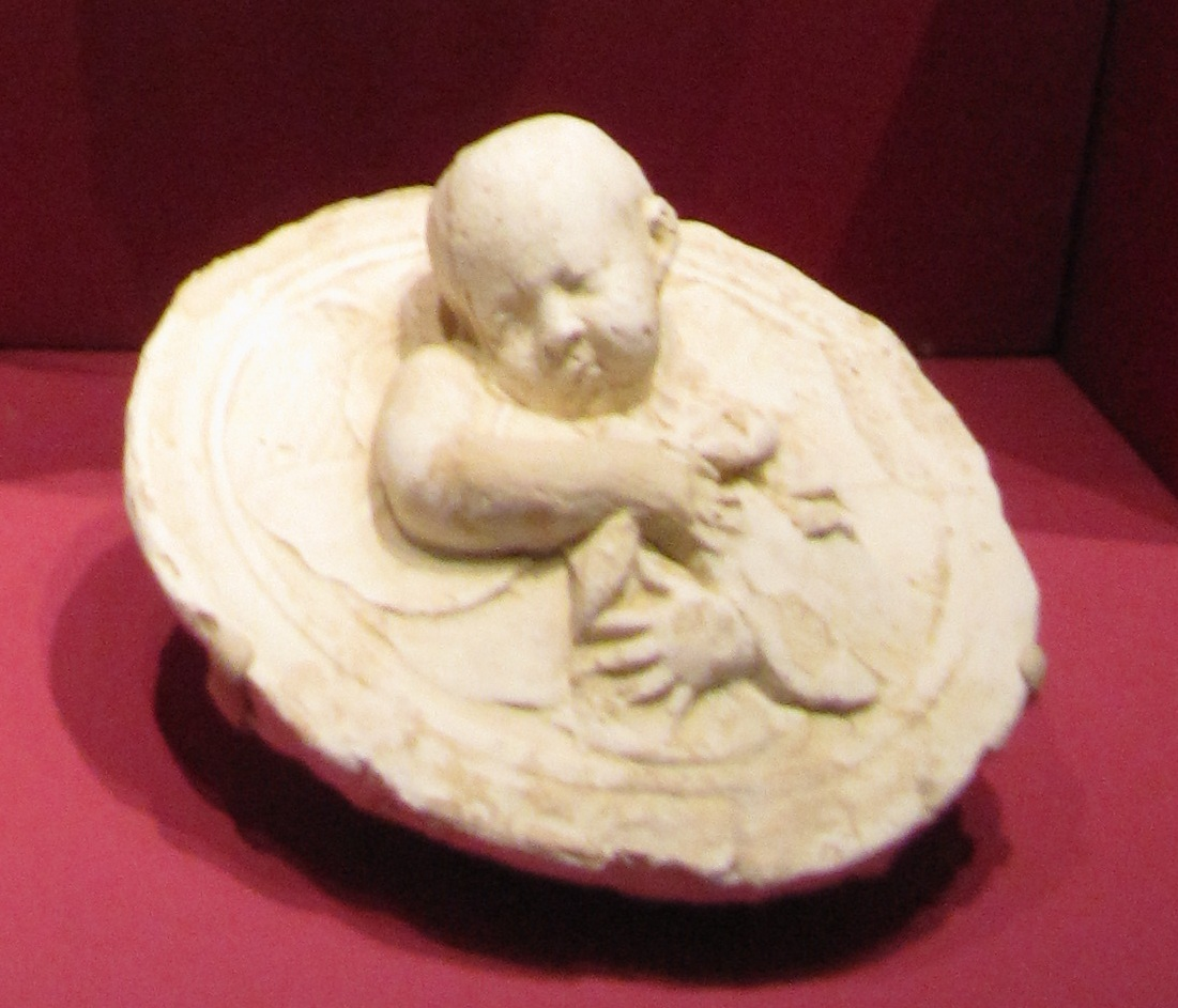 Circular medallion with Eros and Psyche, Begram, Room 13, 1st century A.D., Plaster, National Museum of Afghanistan, Personal photograph 2011, British Museum.